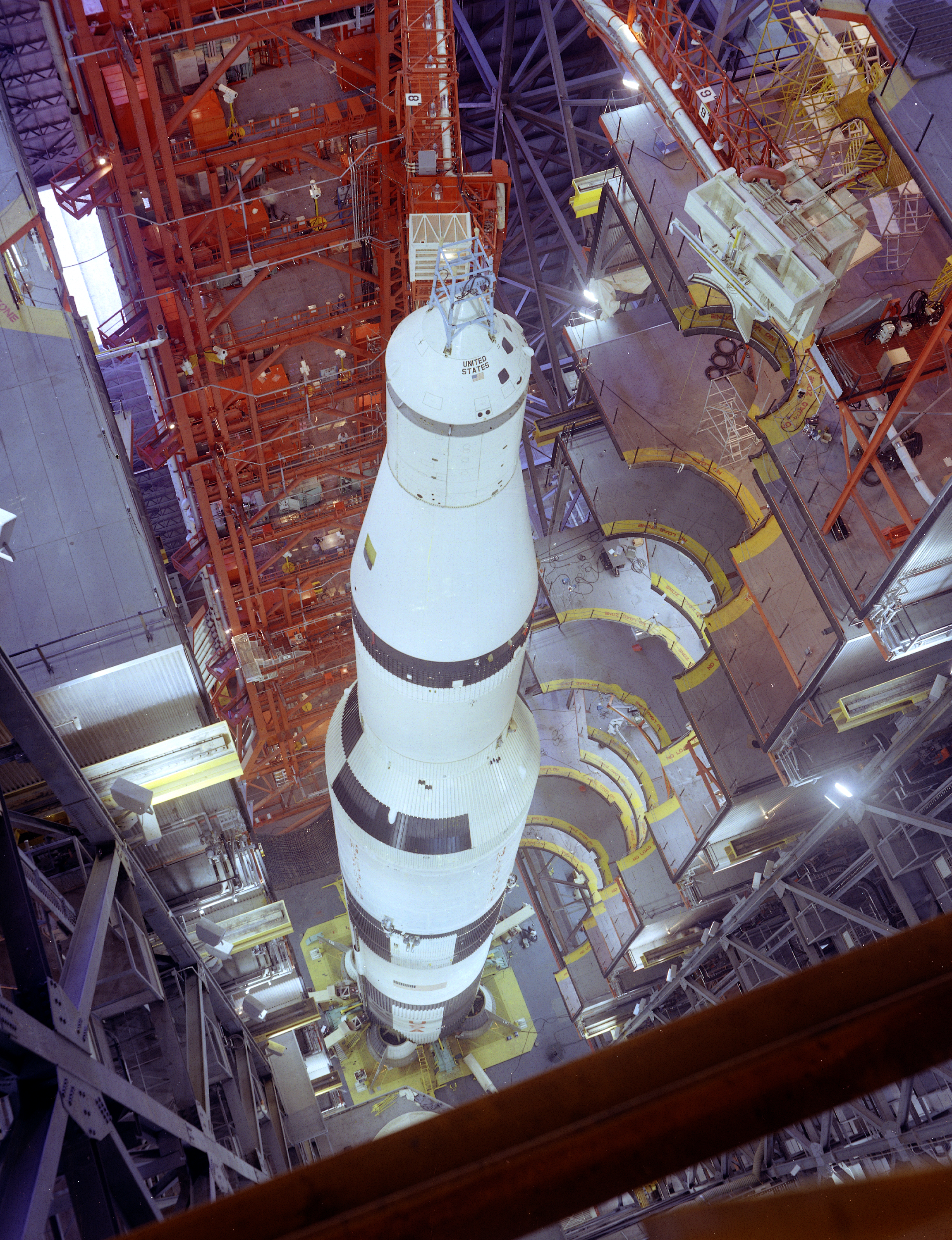 Saturn V Vehicle for the Apollo 4 Mission in the Vehicle Assembly BuildingThis photograph depicts the Saturn V vehicle (SA-501) for the Apollo 4 mission in the Vehicle Assembly Building (VAB) at the Kernedy Space Center (KSC). After the completion of the assembly operation, the work platform was retracted and the vehicle was readied to rollout from the VAB to the launch pad. The Apollo 4 mission was the first launch of the Saturn V launch vehicle. Objectives of the unmanned Apollo 4 test flight were to obtain flight information on launch vehicle and spacecraft structural integrity and compatibility, flight loads, stage separation, and subsystems operation including testing of restart of the S-IVB stage, and to evaluate the Apollo command module heat shield. The Apollo 4 was launched on November 9, 1967 from KSC.